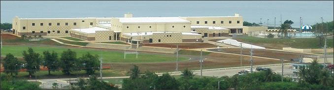 Guam High School